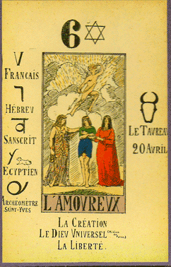 Page with tarot trump design from Papus: Le Tarot Divinatoire. Le Livre des Mystères et les Mystères du Livre. Clef du tirage des cartes et des sorts. Avec la reconstitution complète des 78 lames du Tarot Égyptien et de la méthode d'interprétation. Les 22 arcanes majeurs et les 56 arcanes mineurs. Libr. Hermétique, Paris 1909.